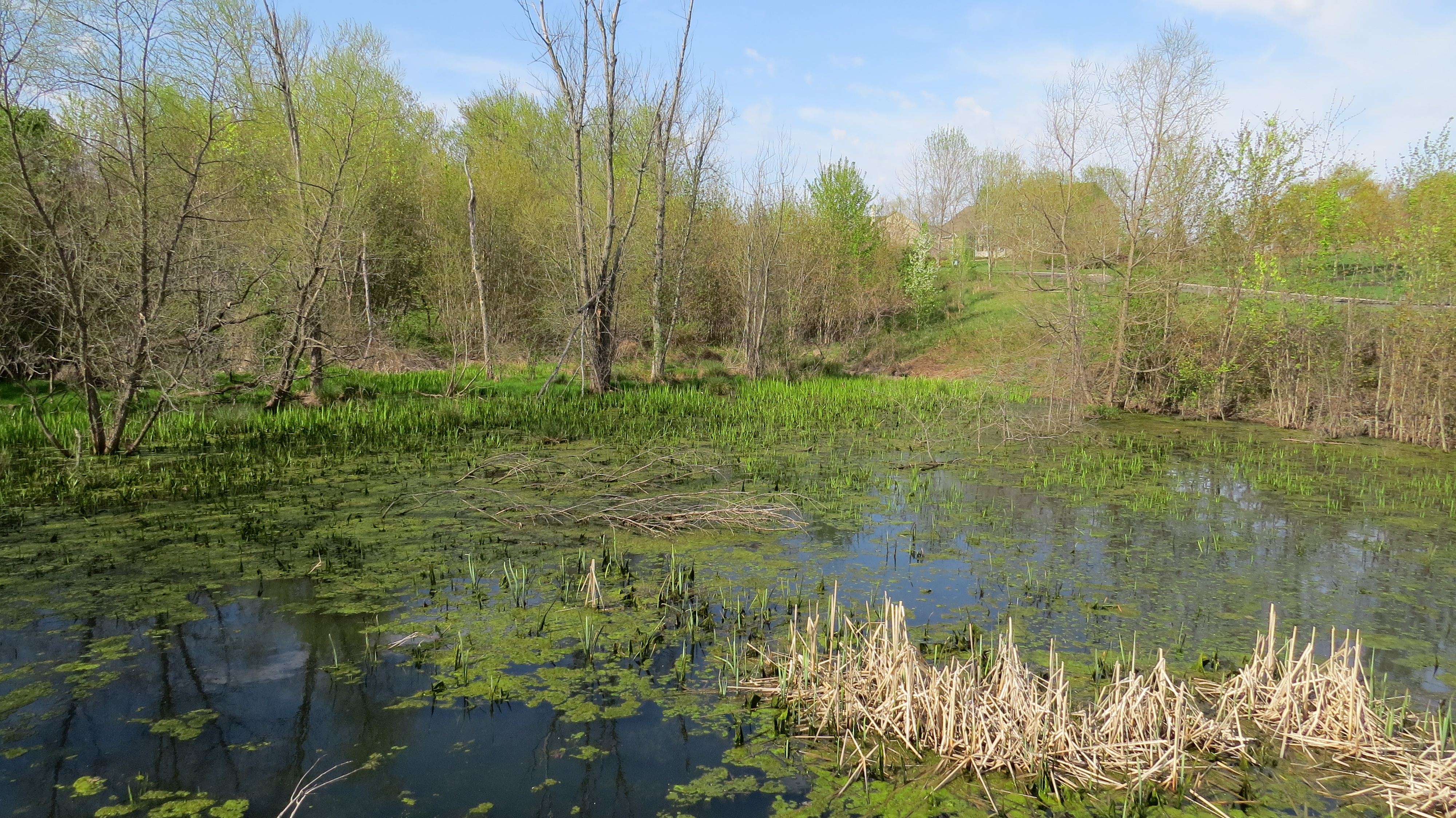 Photos from Montgomery County Planning Commission on Flickr: "CedarsHillRdBasinHomes, Wetland in Skippack Township"